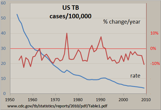 TB incidence in the United States 1953-2009.